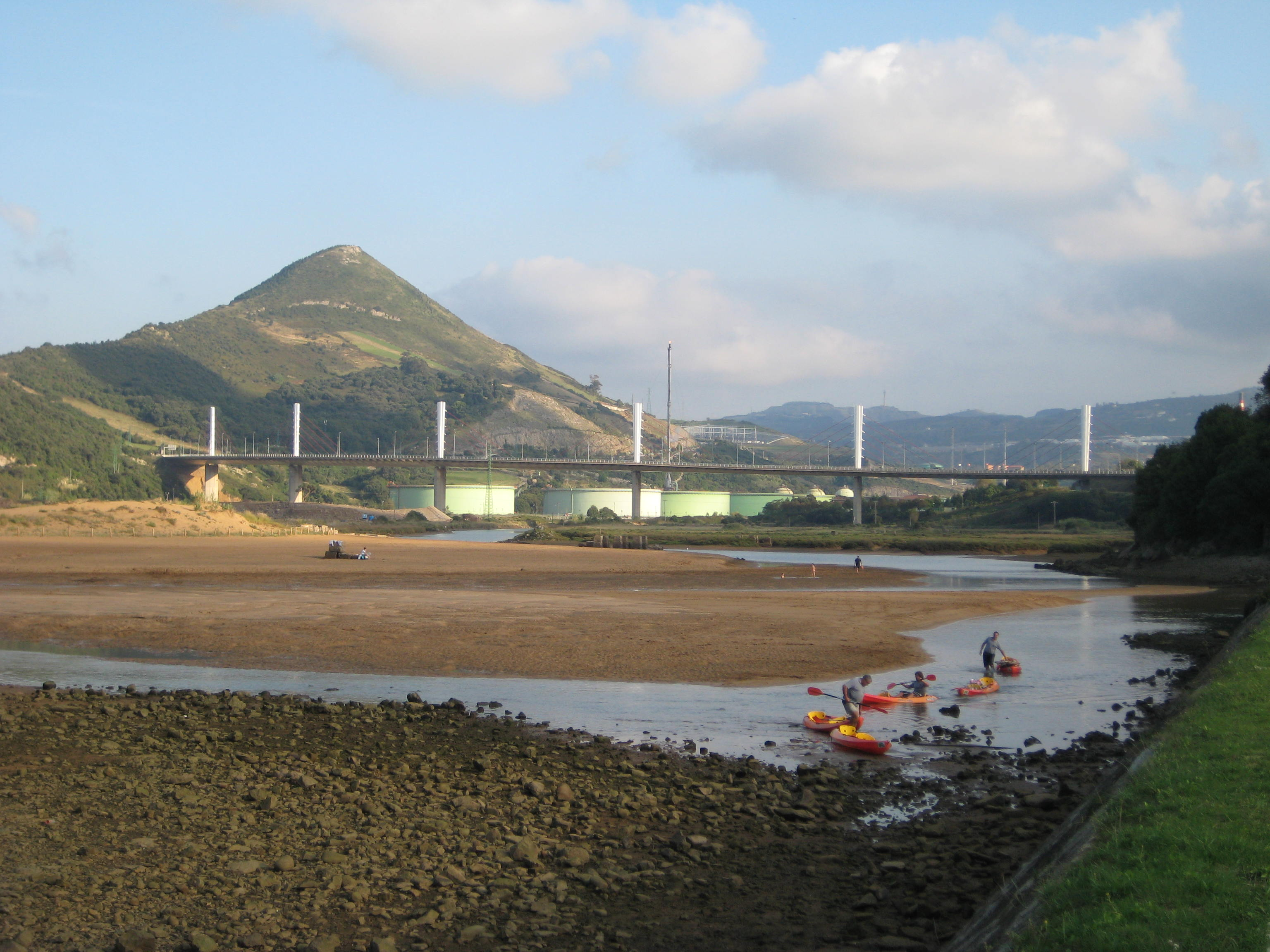 River Barbadun in Muskiz, near its stuary, September 26, 2009.